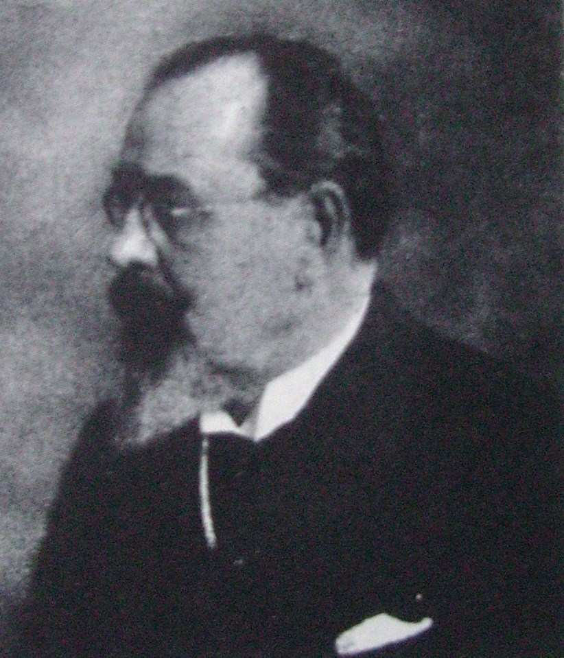 Picture of Henrik Schück, Swedish professor